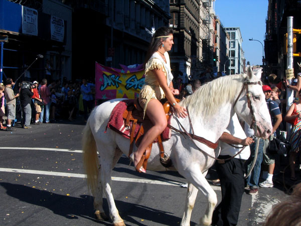 white horse